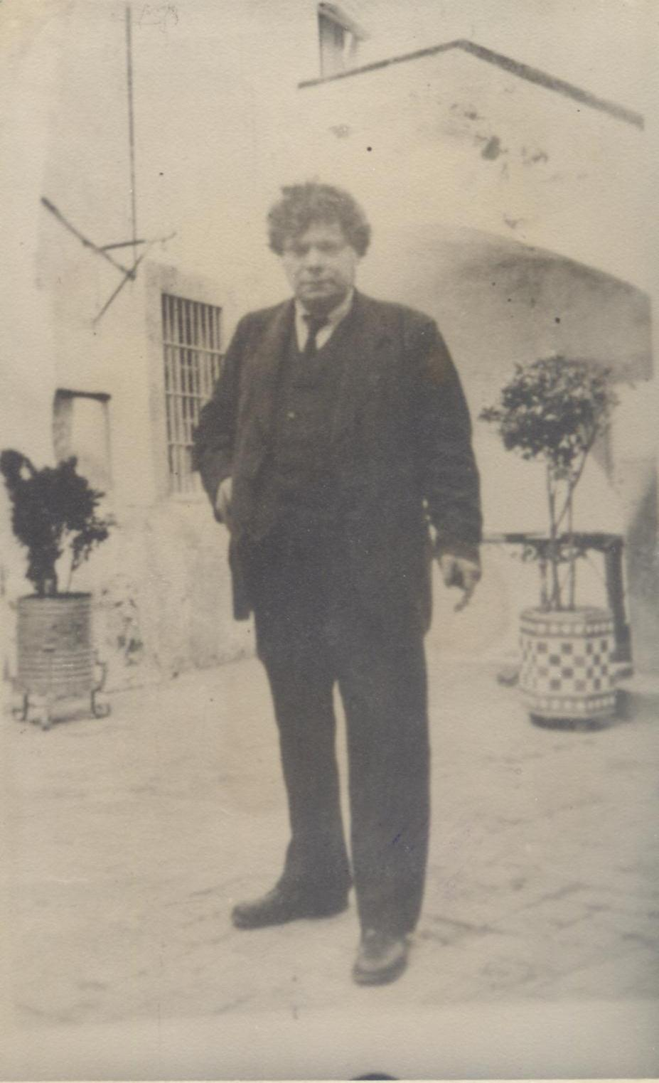 Bulgarian literary theorist, critician and translator Alexander Balabanov, south of Barcelona